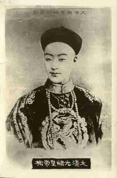 Guangxu Emperor